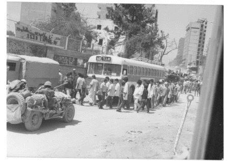 egged bus which was recruited to transport prisoners from the hospital of Sidon in lebanon 1982 הוצאת שבויים מבית החולים של צידון,אוטובוס של אגד גוייס להובלת השבויים התמונה צולמה על ידי עמוס א.